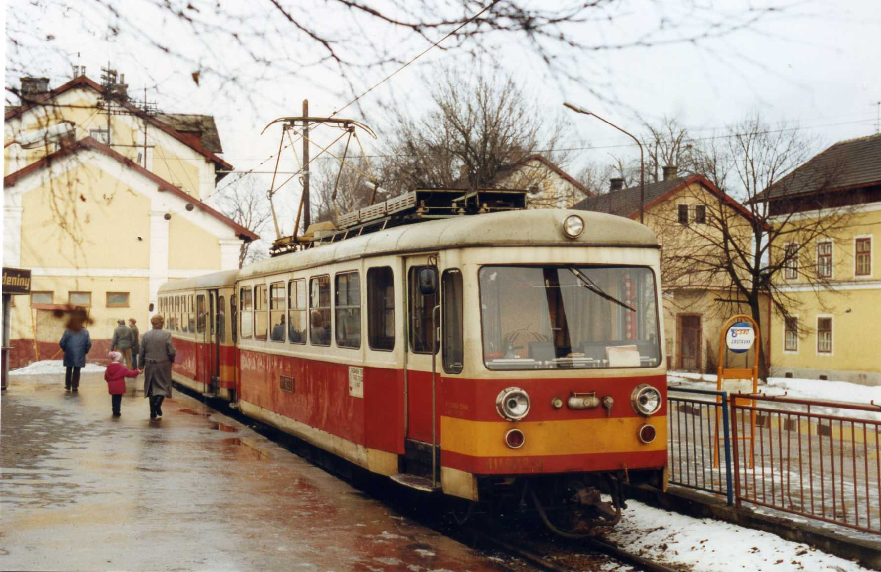 Electric tram-like narrow gauge railway connecting Trenčianska Teplá with the spa town of Trenčianske Teplice, operated by the state railway company ČSD of what was then the country of Czechoslovakia.